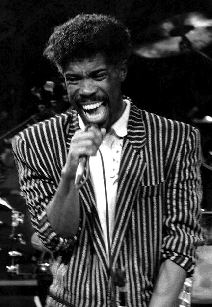 Singer and songwriter Billy Ocean live in New York